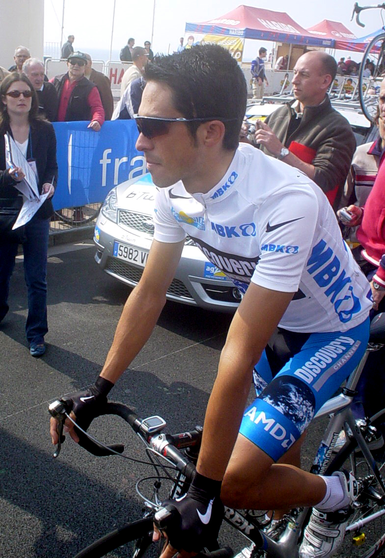 Alberto Contador in the 2007 Paris-Nice bicycle race